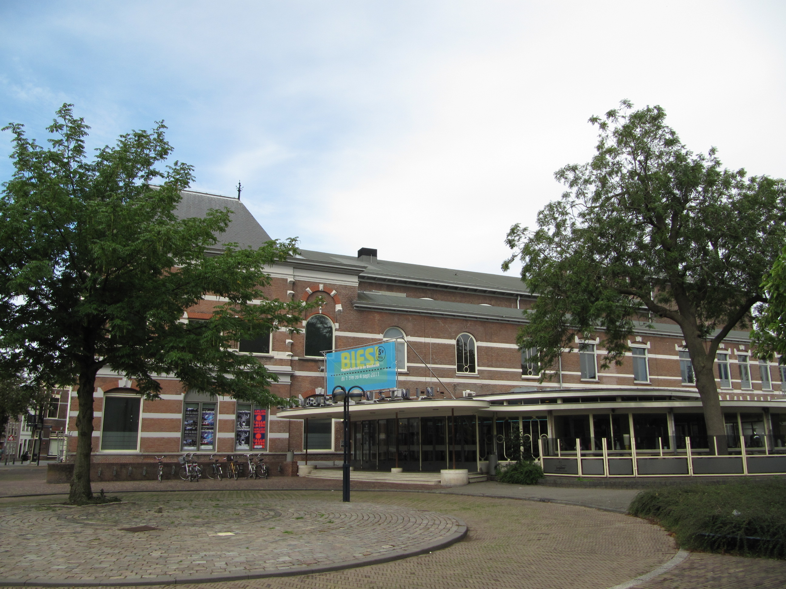 Theater Kunstmin, Dordrecht, the Netherlands.